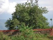 The sacred wild pear tree, standing at Shajouba or Charangho (in the Mao area of Manipur State, India), believed to have been planted at the place from where the different Naga tribes migrated to their present areas of habitation.